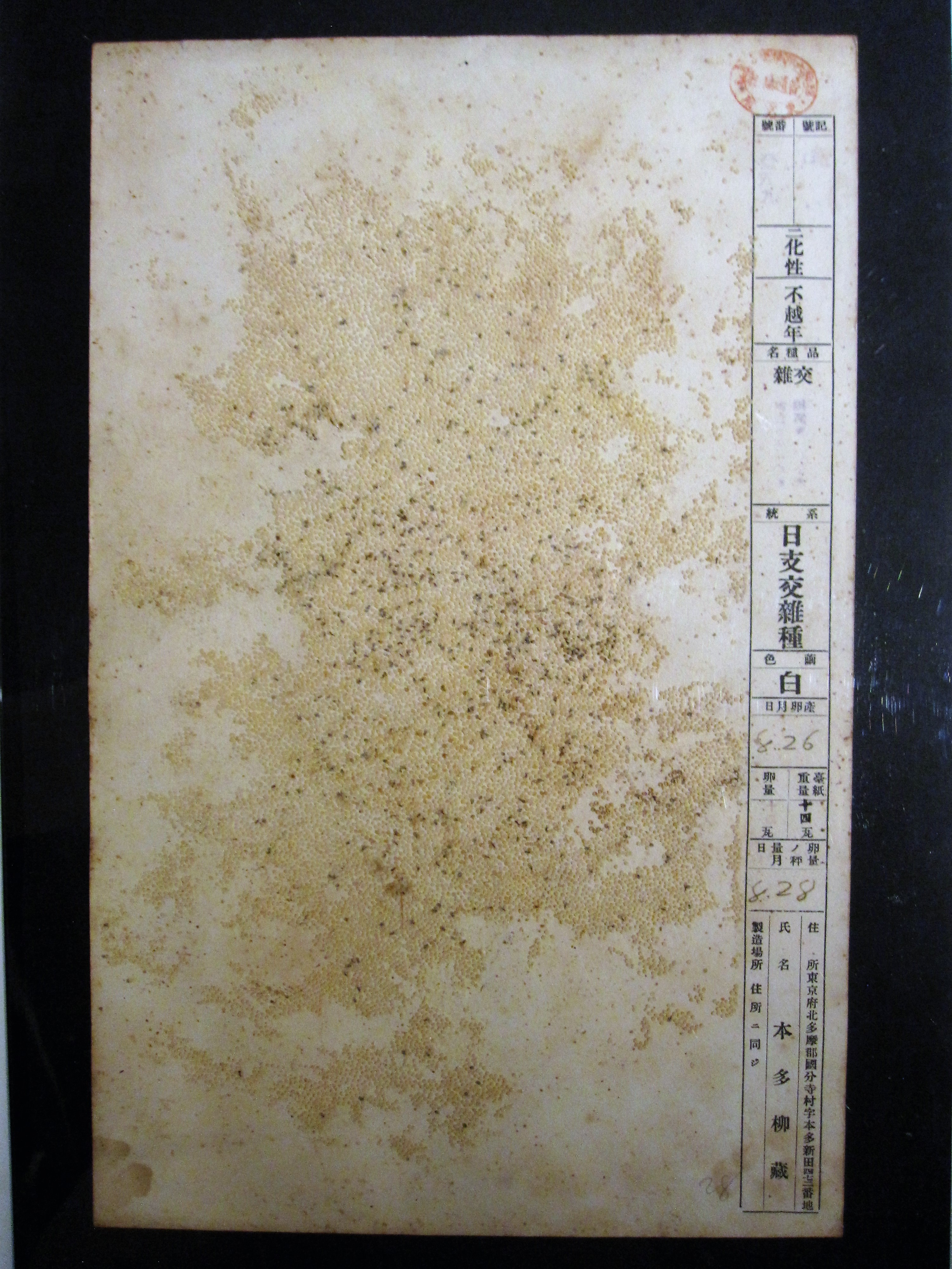 A silkworm egg card in Japan displayed in the old Honda residence, Kokubunji, Tokyo, Japan.